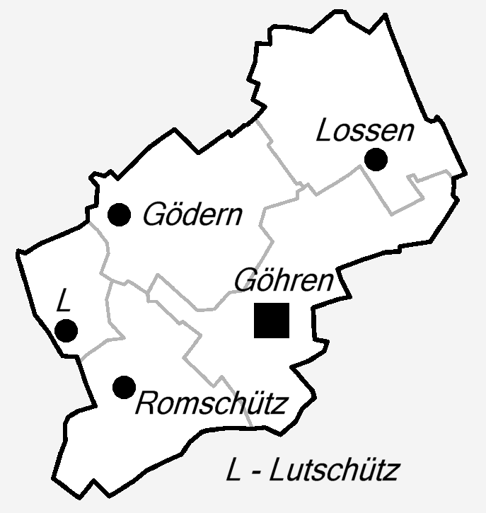 District-Maps of Göhren village.